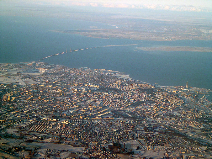 A view of Malmö and the Öresund strait.